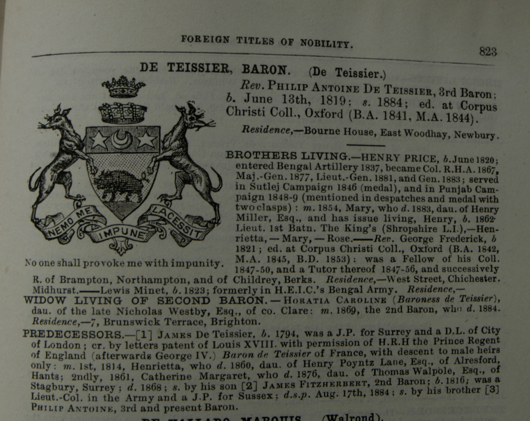 Photograph (by me, R. de Salis, Rodolph (talk) 23:17, 7 October 2015 (UTC)) of the entry for the Baron De Teissier in the 1888 Debrett's Peerage.